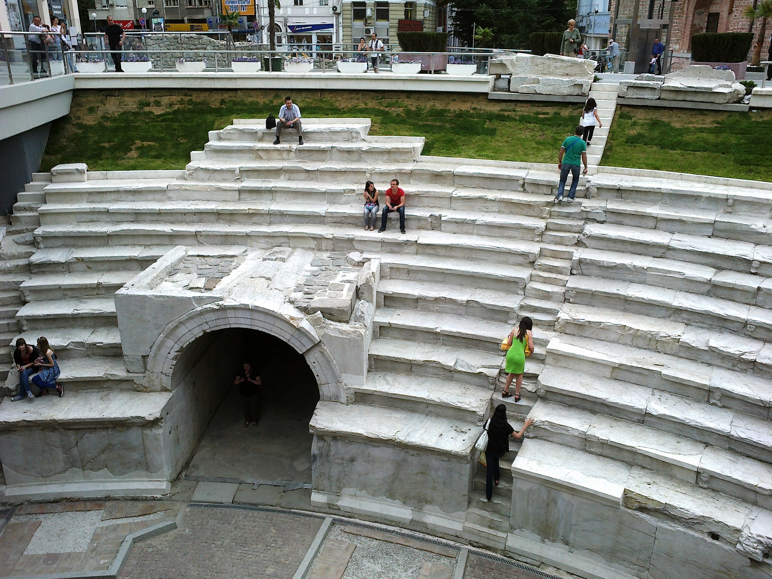 The Ancient stadium in May 2012.